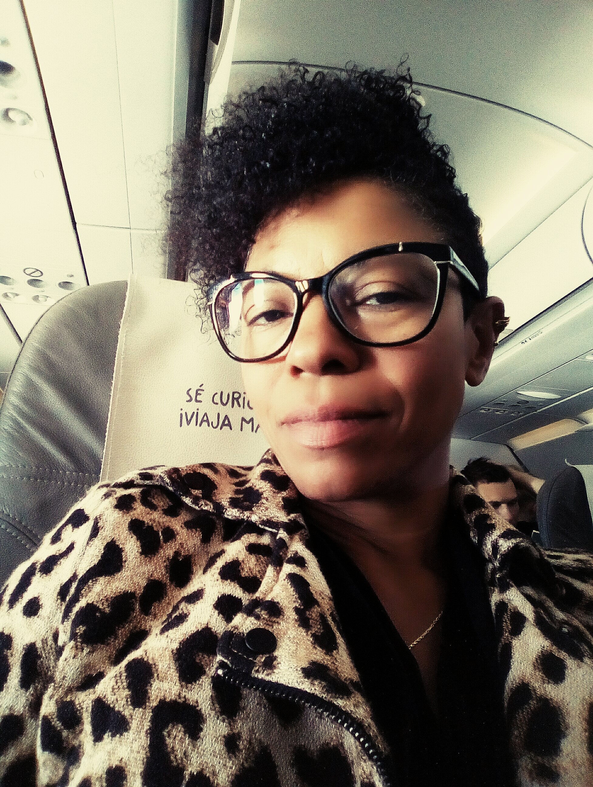 Nicole Willis lives and works in Helsinki